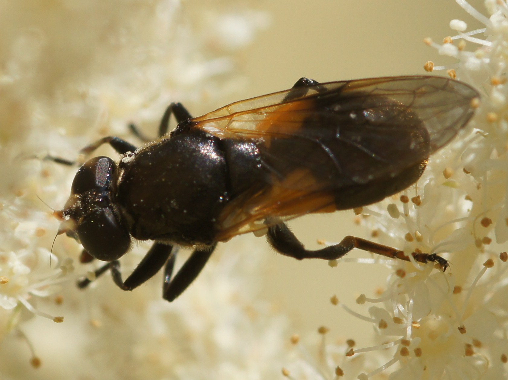 Myolepta dubia (female). Picture taken in Skåne, Sweden.